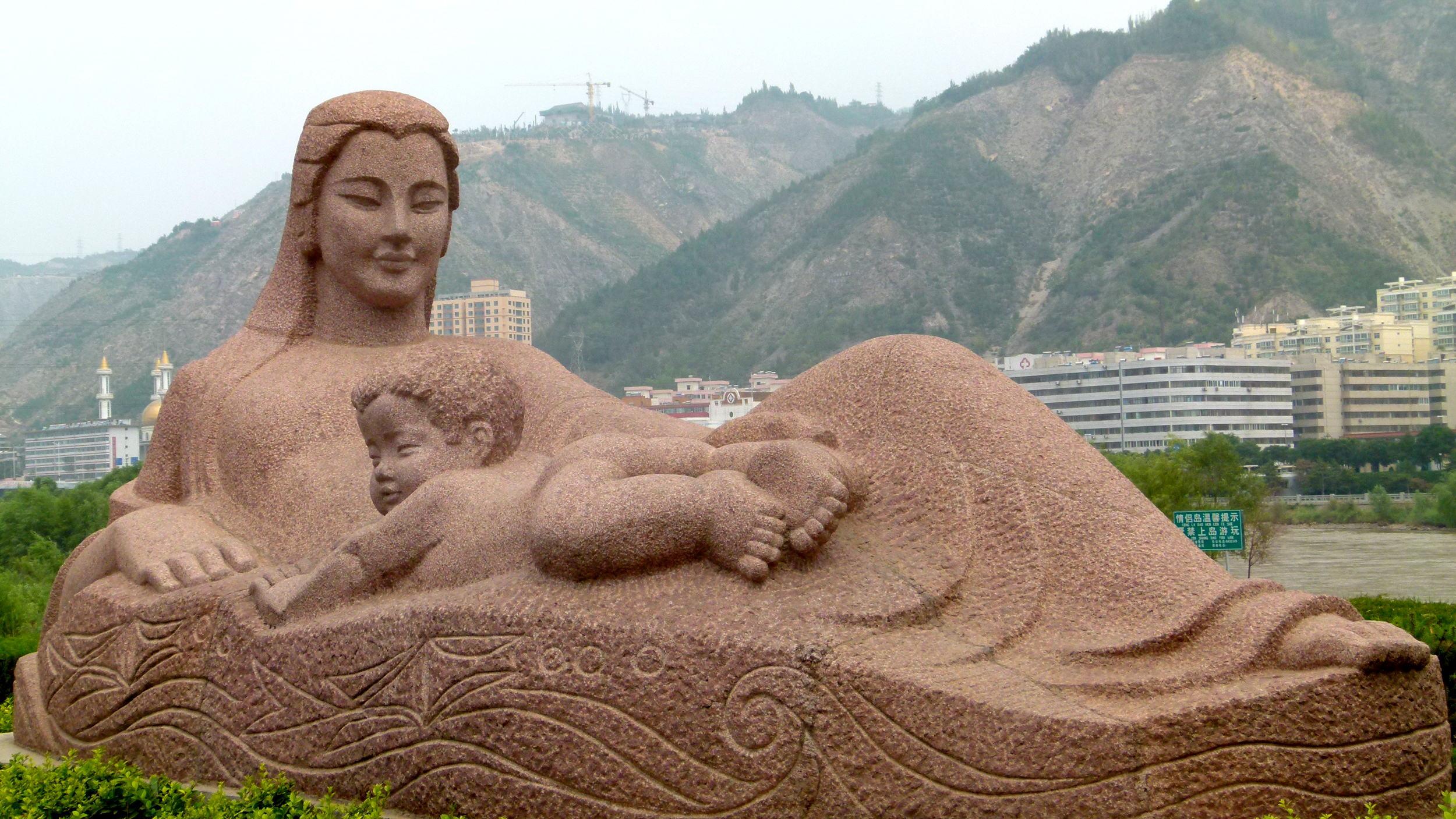 "Mother Huang He" / Mother of the Yellow River in Langzhou (China)